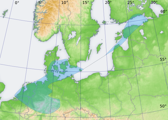 Distribution enlargement to the north of the Map butterfly (Araschnia levana) approx. 1945 - 1982 based on Rolf Reinhardt: Der Landkärtchenfalter, S.6, Neue Brehm-Bücherei, Wittenberg, 1984